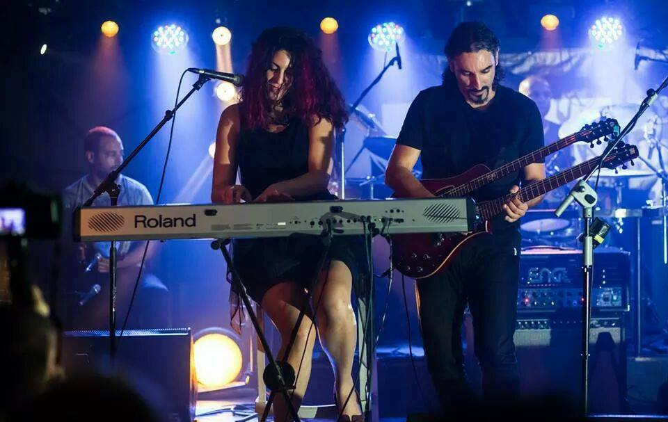 Moran Magal and Yosi Sasi